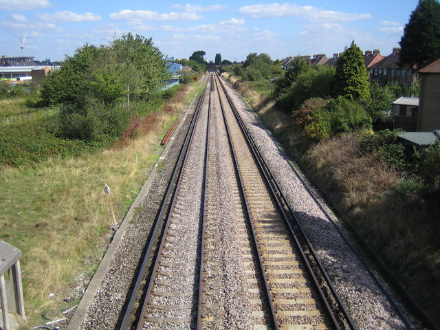 Hounslow to Isleworth railway line. The section of railway line between Hounslow and Isleworth stations is dead straight. This view was taken from the footbridge at the end of Stanley Road, looking towards Isleworth and Waterloo.